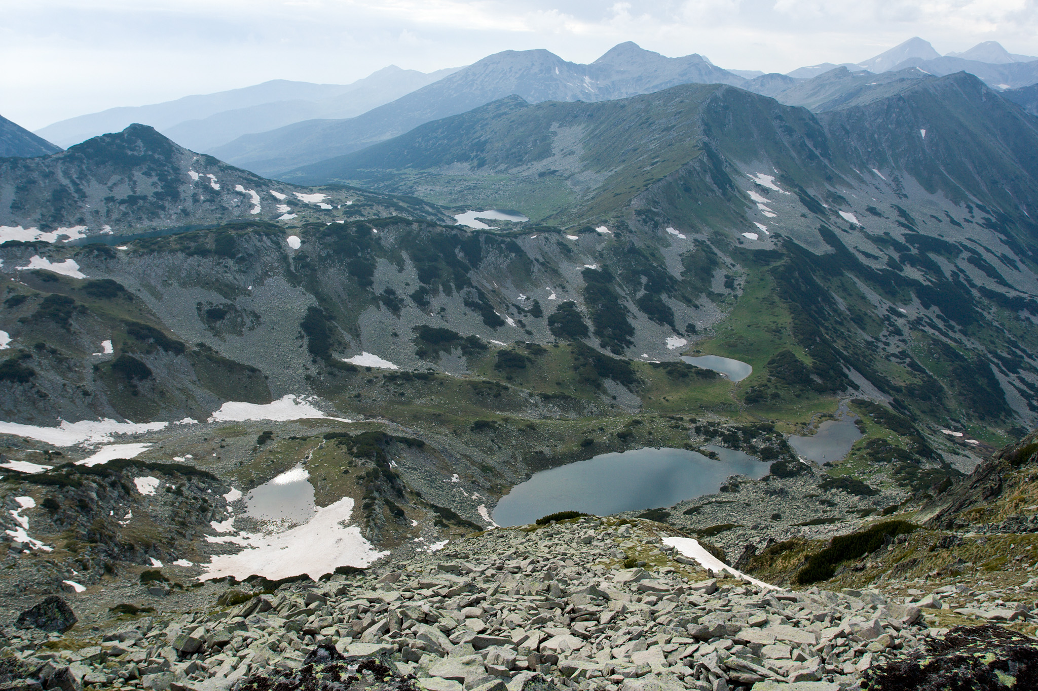 Prevalski cirque and the lakes, Pirin mountain, Bulgaria